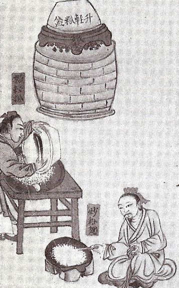 A painting from Essentials of the Pharmacopoeia Ranked According to Nature and Efficacy; Imperially Commissioned, a Chinese Ming Dynasty book written in 1505 and edited by Liu Wentai for the Imperial Library of the Ming court. The picture shows the process of sublimation of calomel, or mercurous chloride. The man on th left is shown brushing the crystals from the sublimation lid by using a feather. This same process was used for the collection of crystals from human sex and pituitary hormones from human urine.